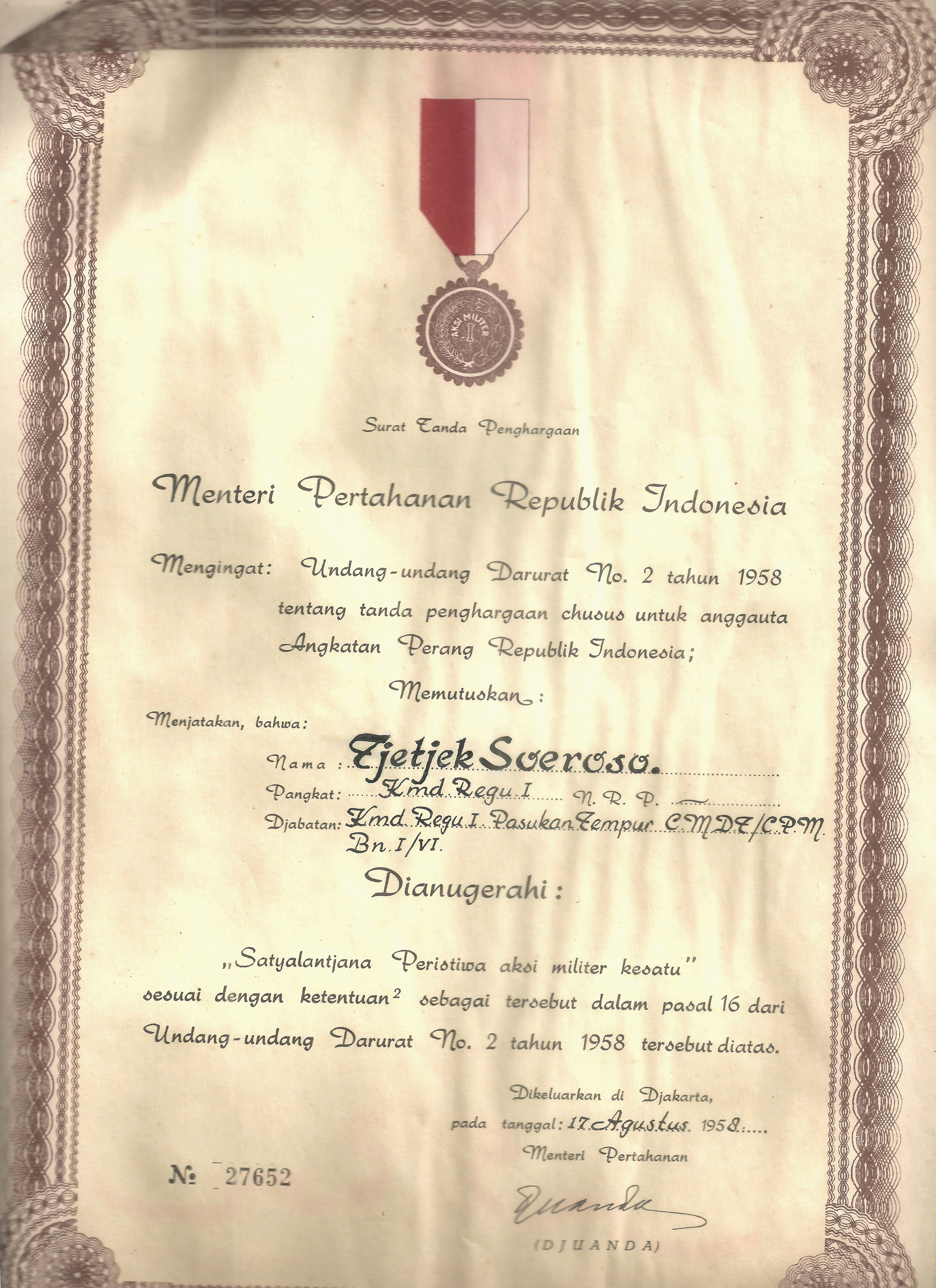 Aksi Militer I diploma as received by my grandfather